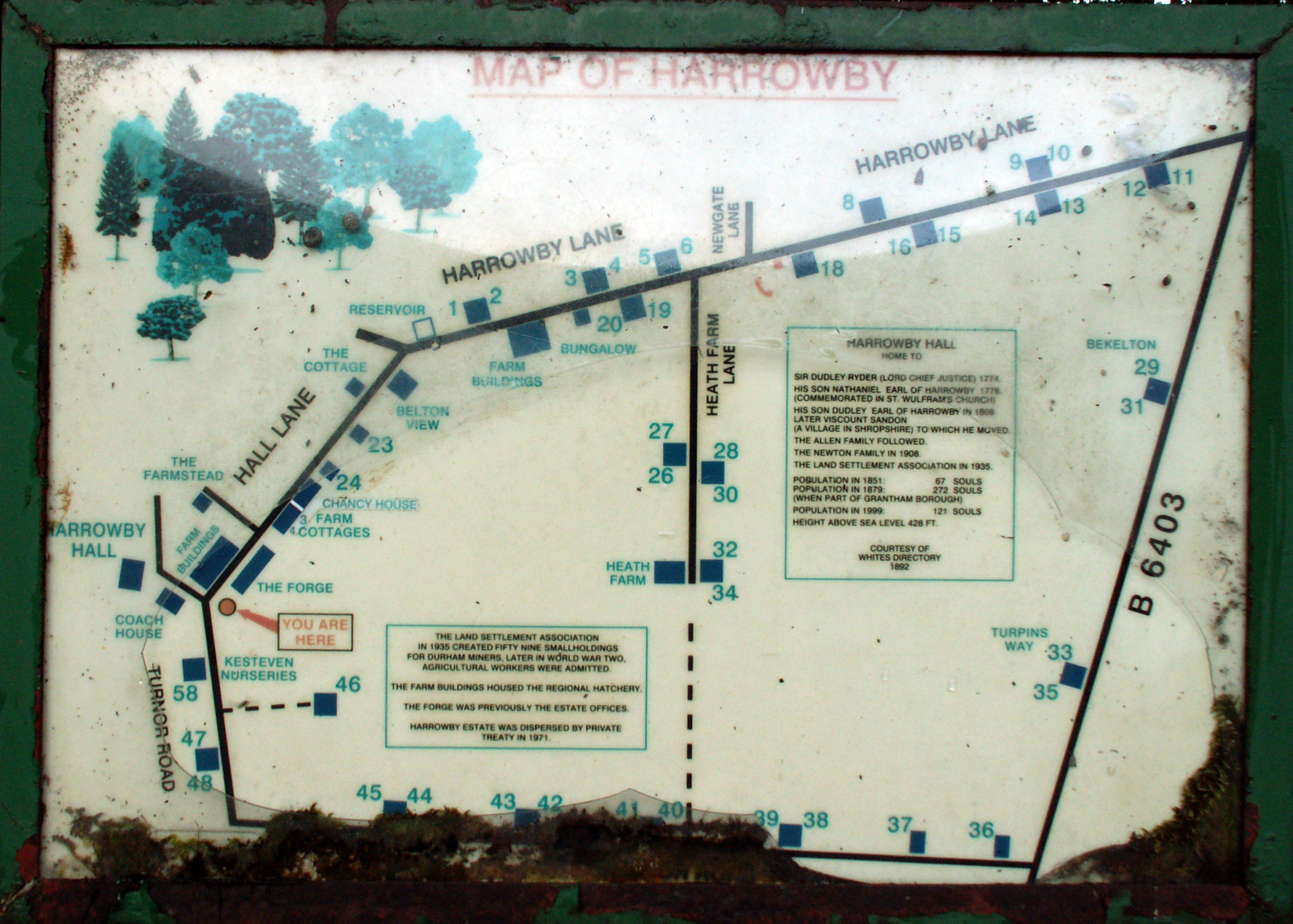 Roadside sign showing Land Settlements within Londonthorpe and Harrowby Without parish, next Grantham, Lincolnshire, England